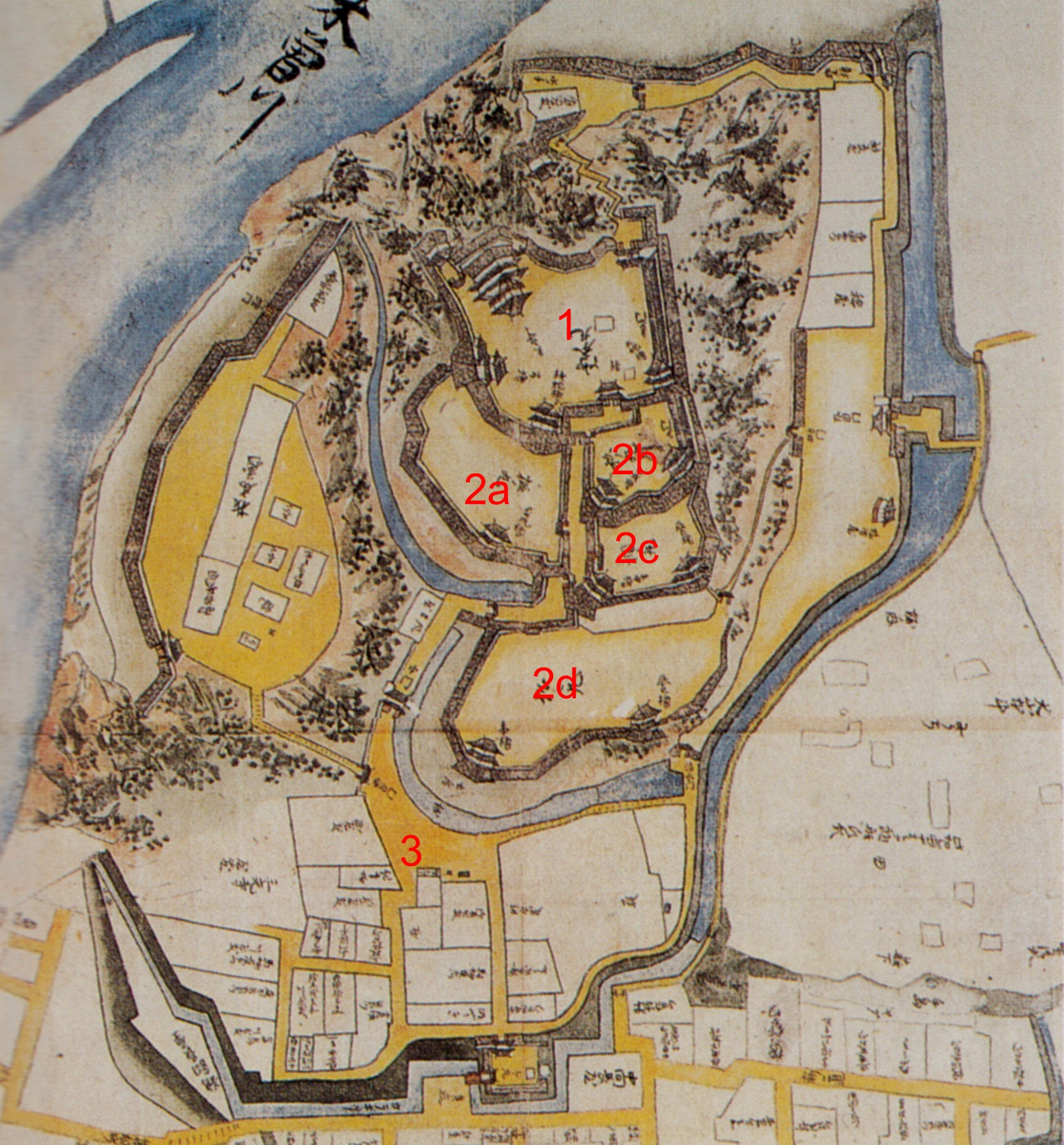 Map of Inuyama castle